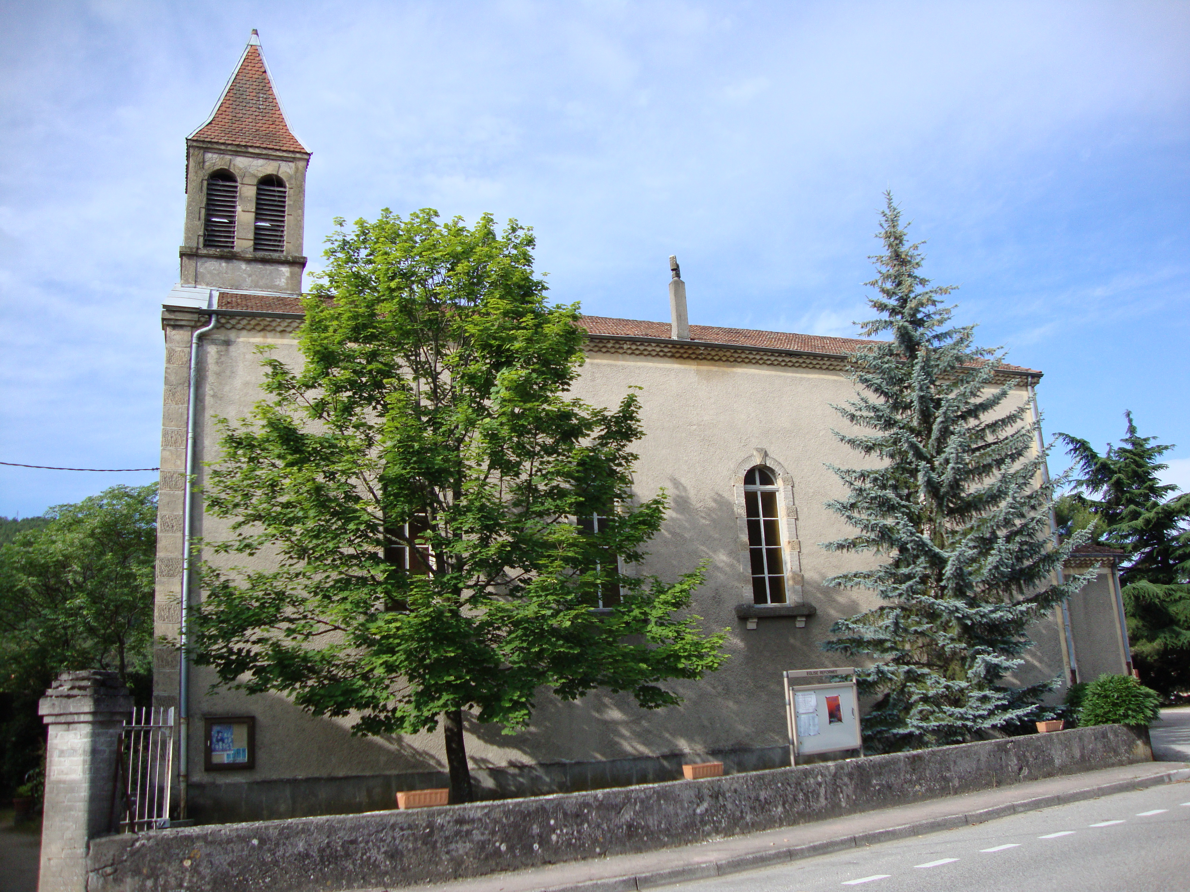 Saint-.Laurent-du-Pape (Ardèche, Fr) église réformée